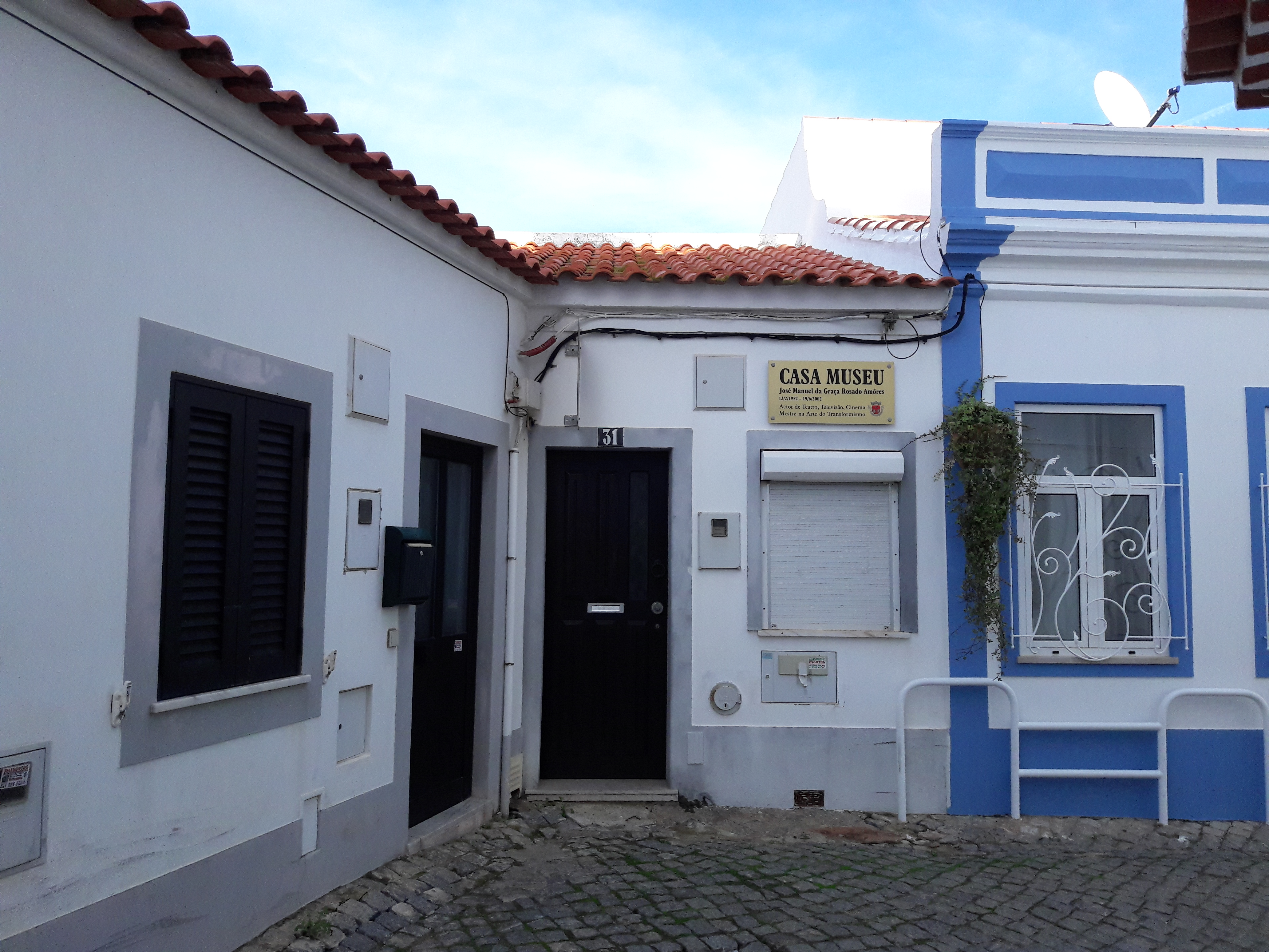 Museum of actor José Manuel da Graça Rosado Amores, in the city of Lagos, in southern Portugal.